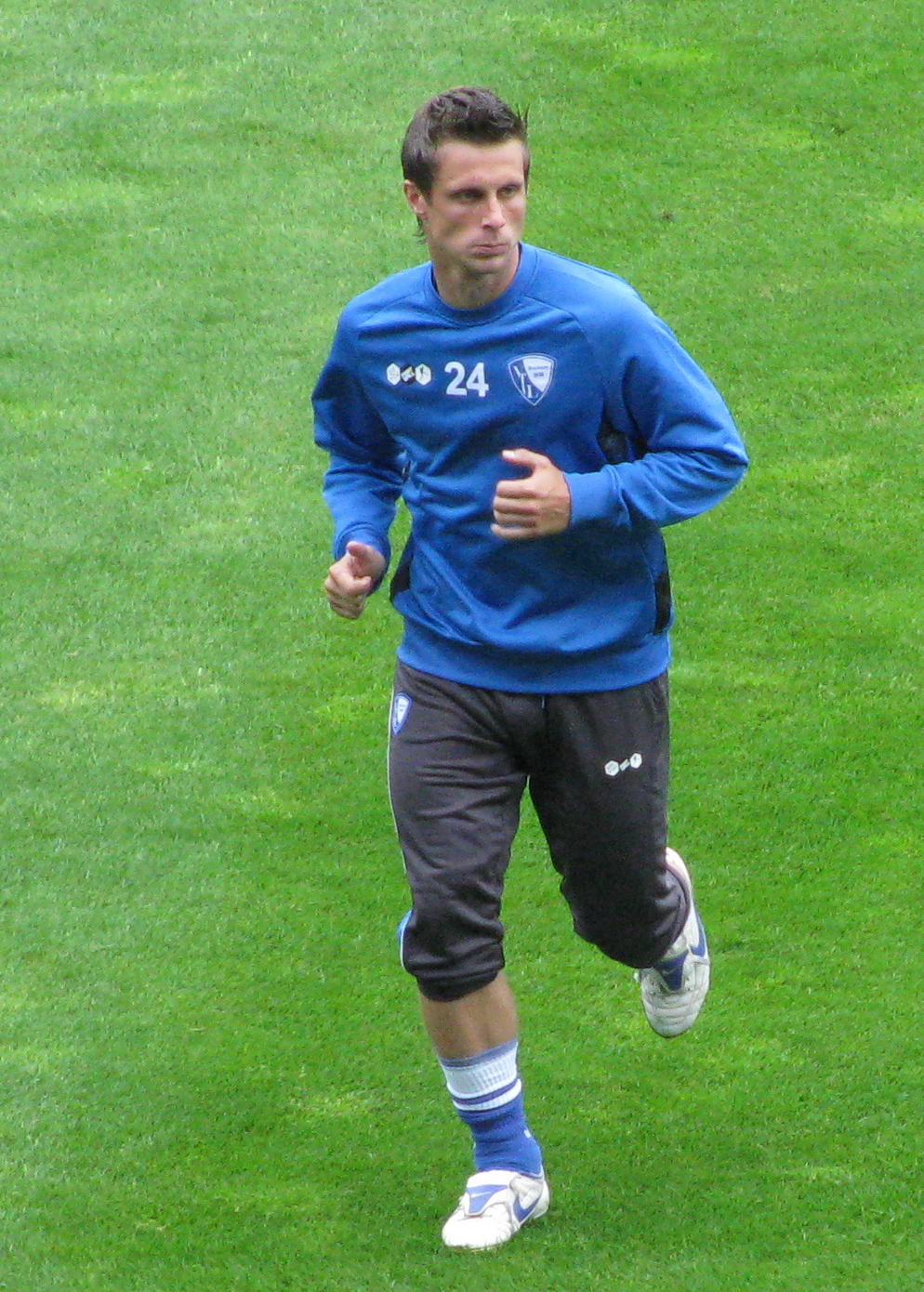 Philipp Bönig during warm up. Friendly against Olympiakos Piräus in 2009.